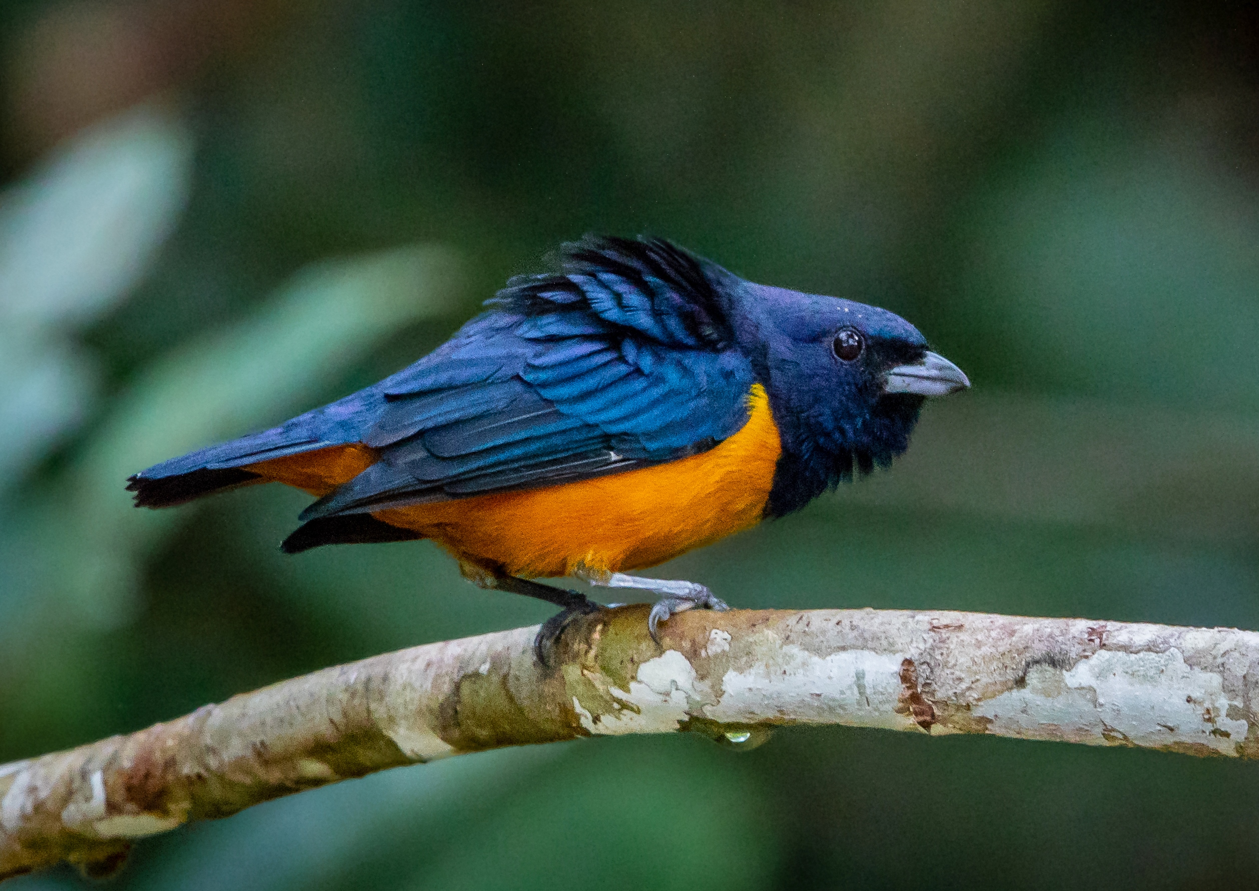 Rufous-bellied euphonia (adult male), Manacapuru, Amazonas, Brazil